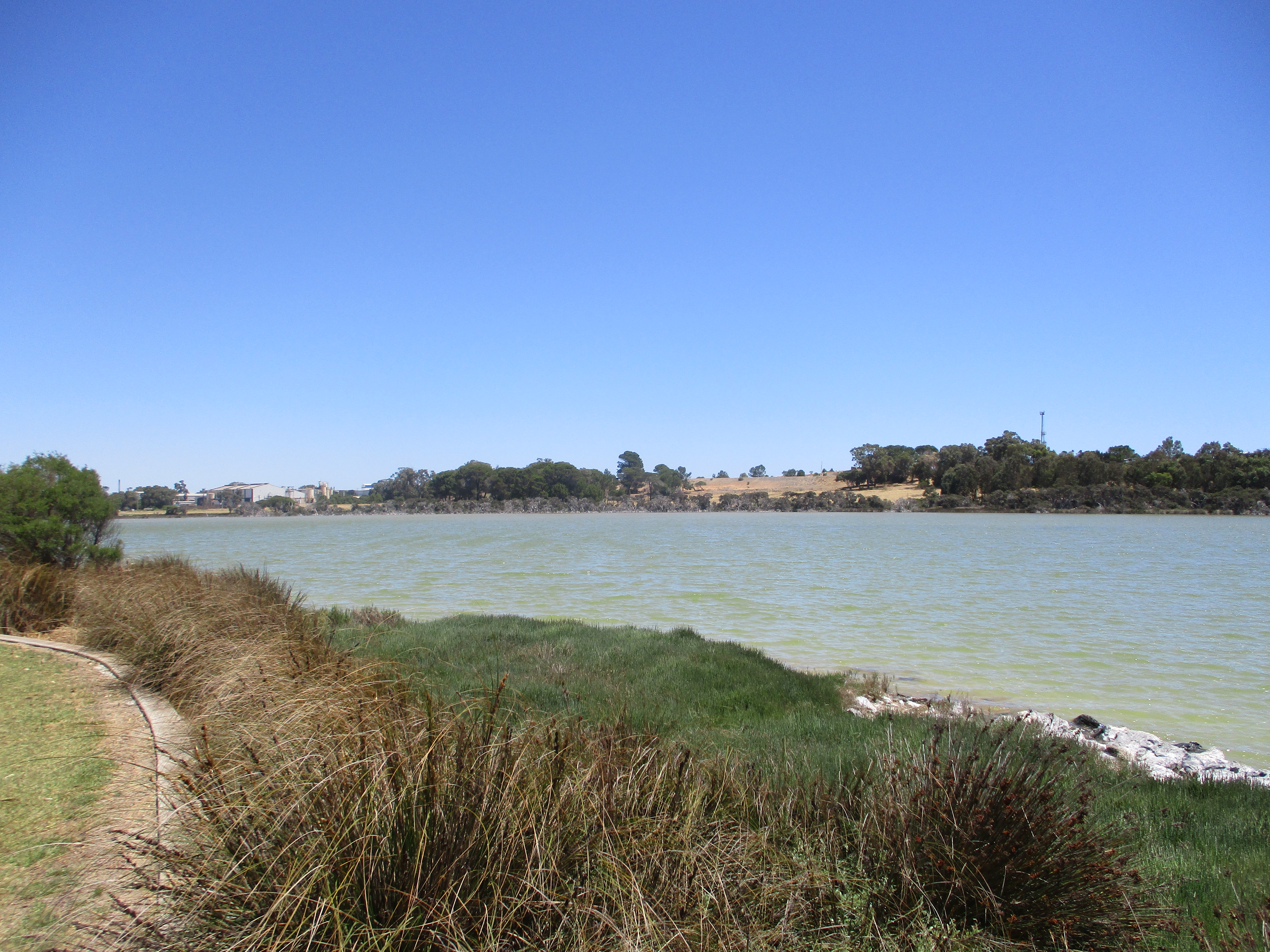 Lake Coogee, Munster, Western Australia, seen from Fawcett Road, on the eastern shore.